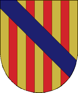 Coat of arms of the Kingdom of Majorca.